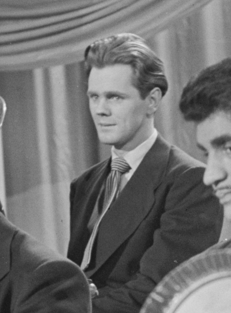 Members of the brass section are, left to right in the front row: Emil Terry, Louis Mucci, Eddie Zandy. Back row: Barry Galbraith, guitar, Billy Barber, Al Langstaff, Vahe (Tak) Takvorian. Columbia Pictures studio, the making of Beautiful Doll, New York, N.Y., ca. Sept. 1947.